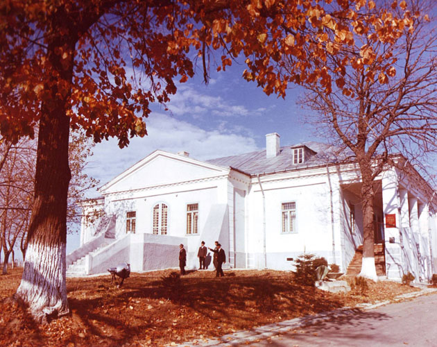 Museum of the 1907 uprising in Flămânzi, Botoşani County, Romania